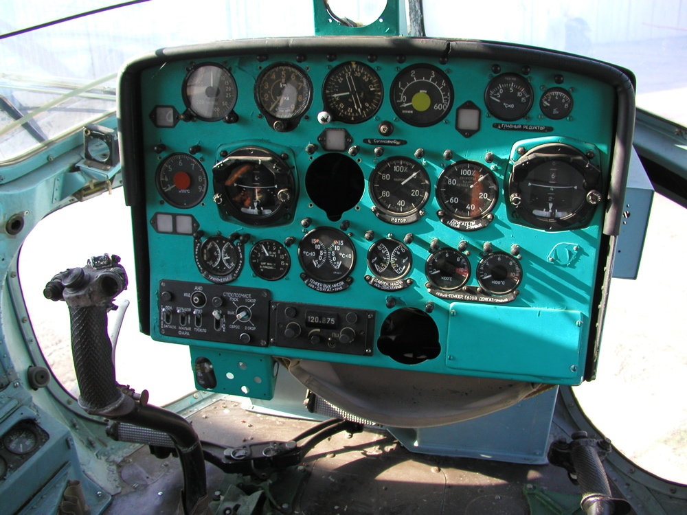 Cockpit of Mil Mi-2. (Aviation Museum in Kosice, Slovakia)